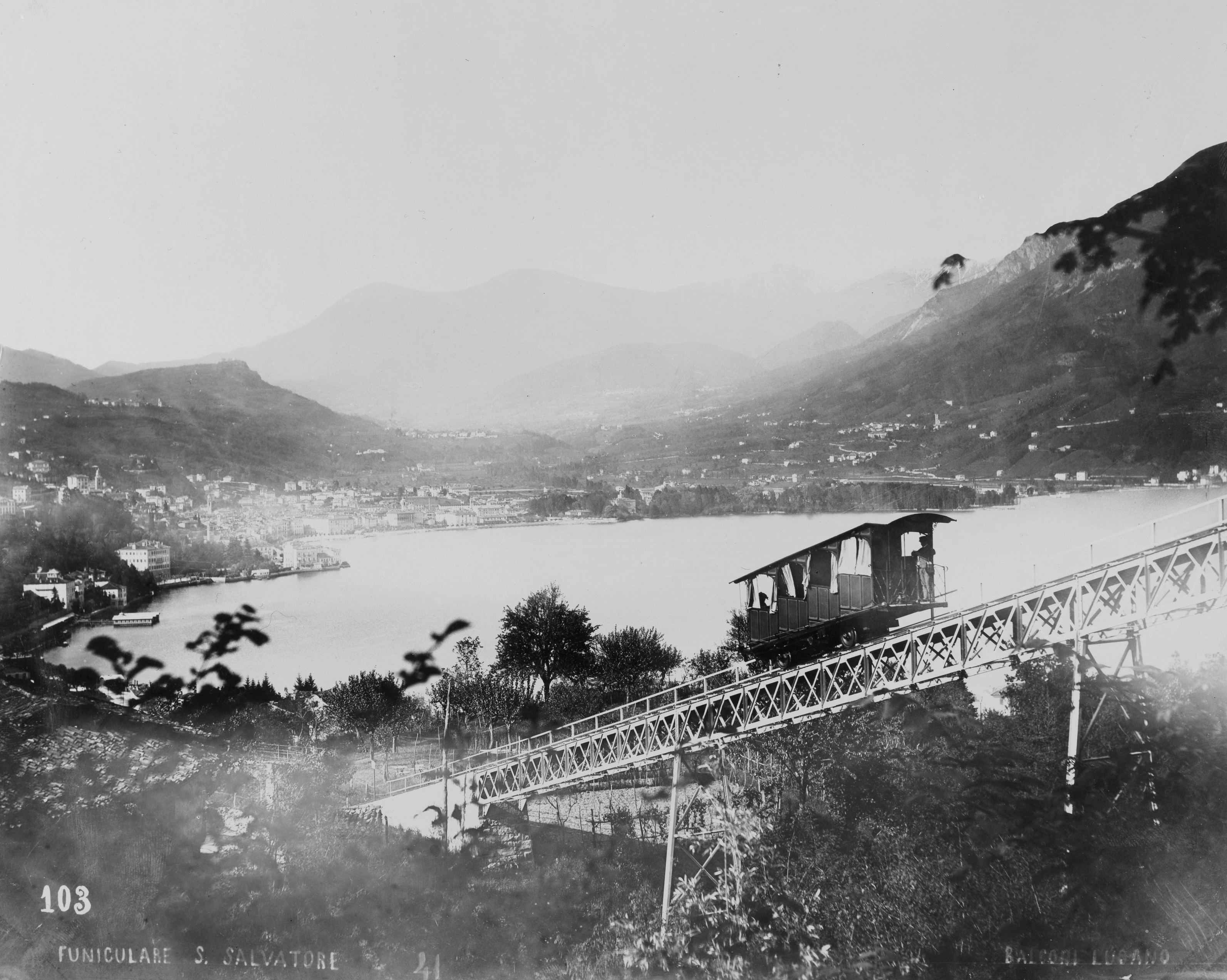 Car of the Funicolare Monte San Salvatore around 1880.